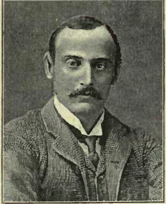 A picture of Henry Twynam, former halfback of the England rugby union team.